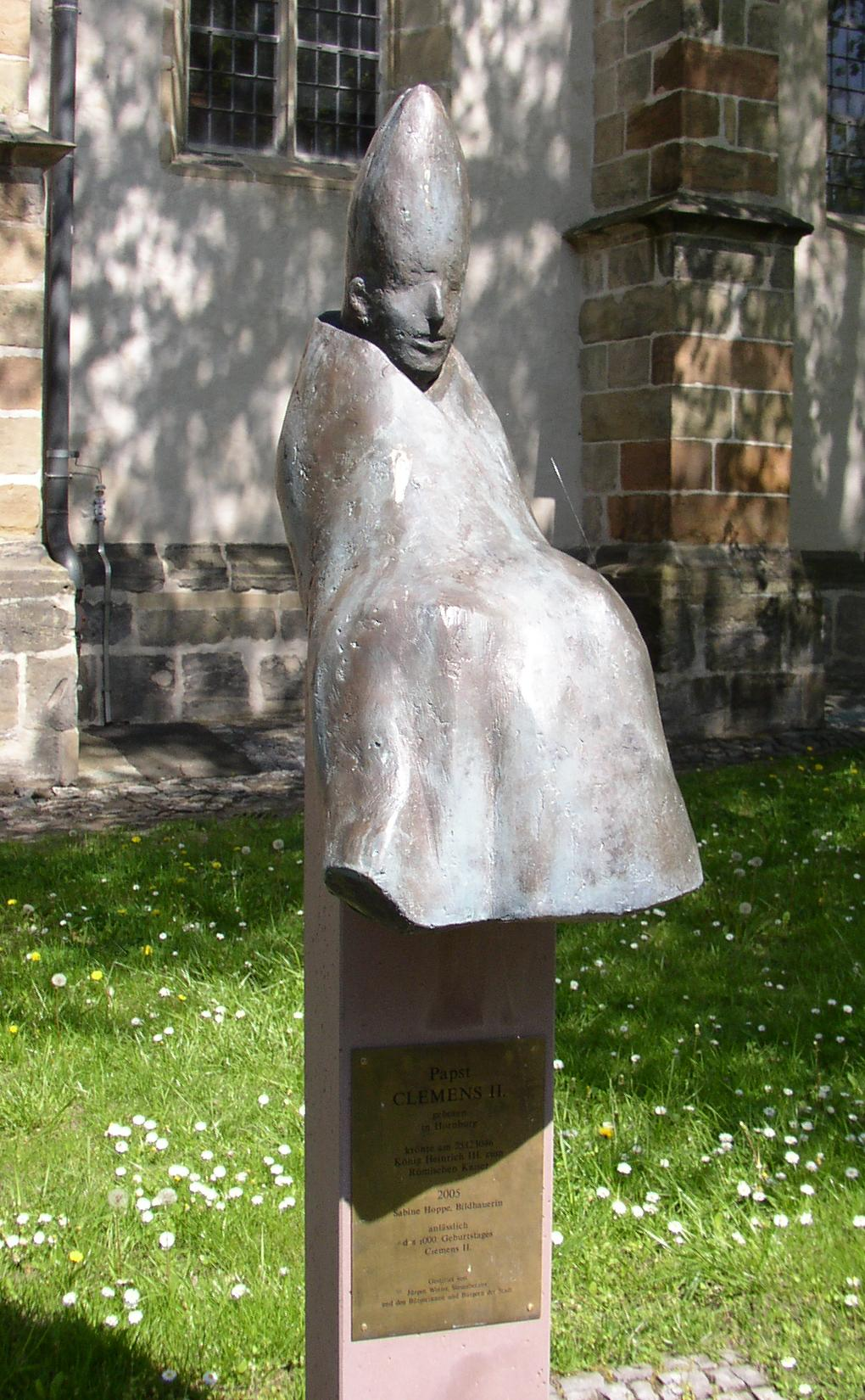 Statue of Pope Clemens II in Hornburg in Lower Saxony, Germany